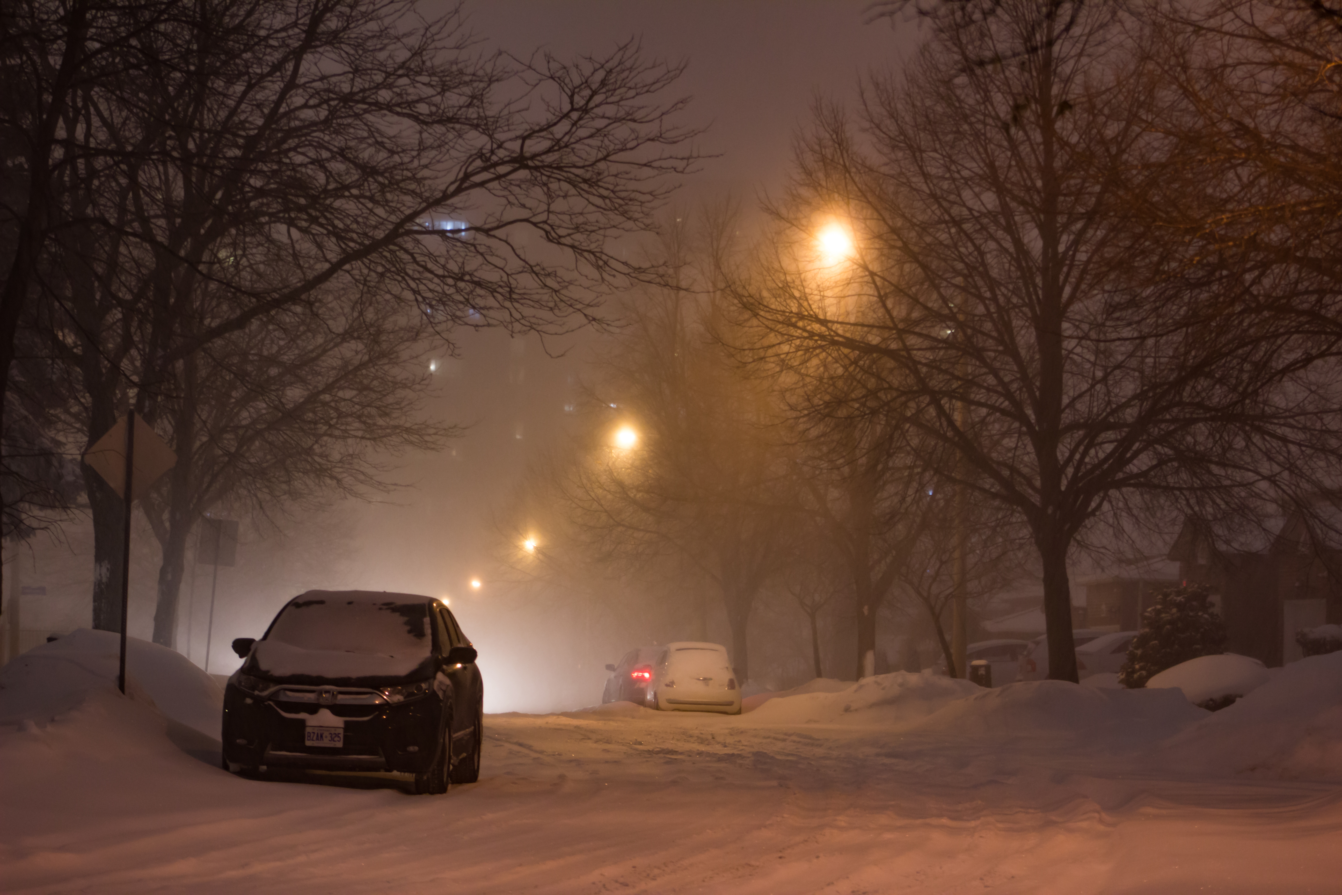 A residential street covered in snow during a snowstorm in Toronto at the end of January. There were relatively high winds and a fair amount of snow (with snow falling throughout the day).